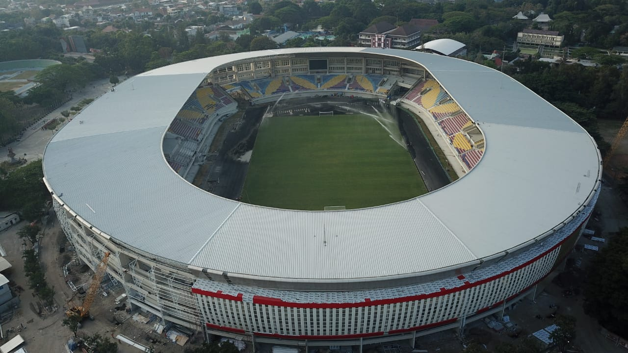 Manahan Stadium during renovation in late August 2019